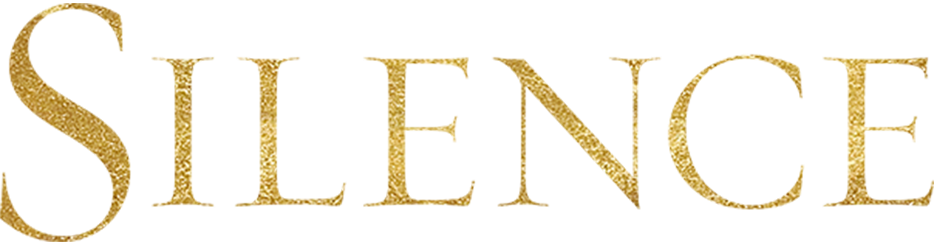 Logo of the 2016 film Silence.